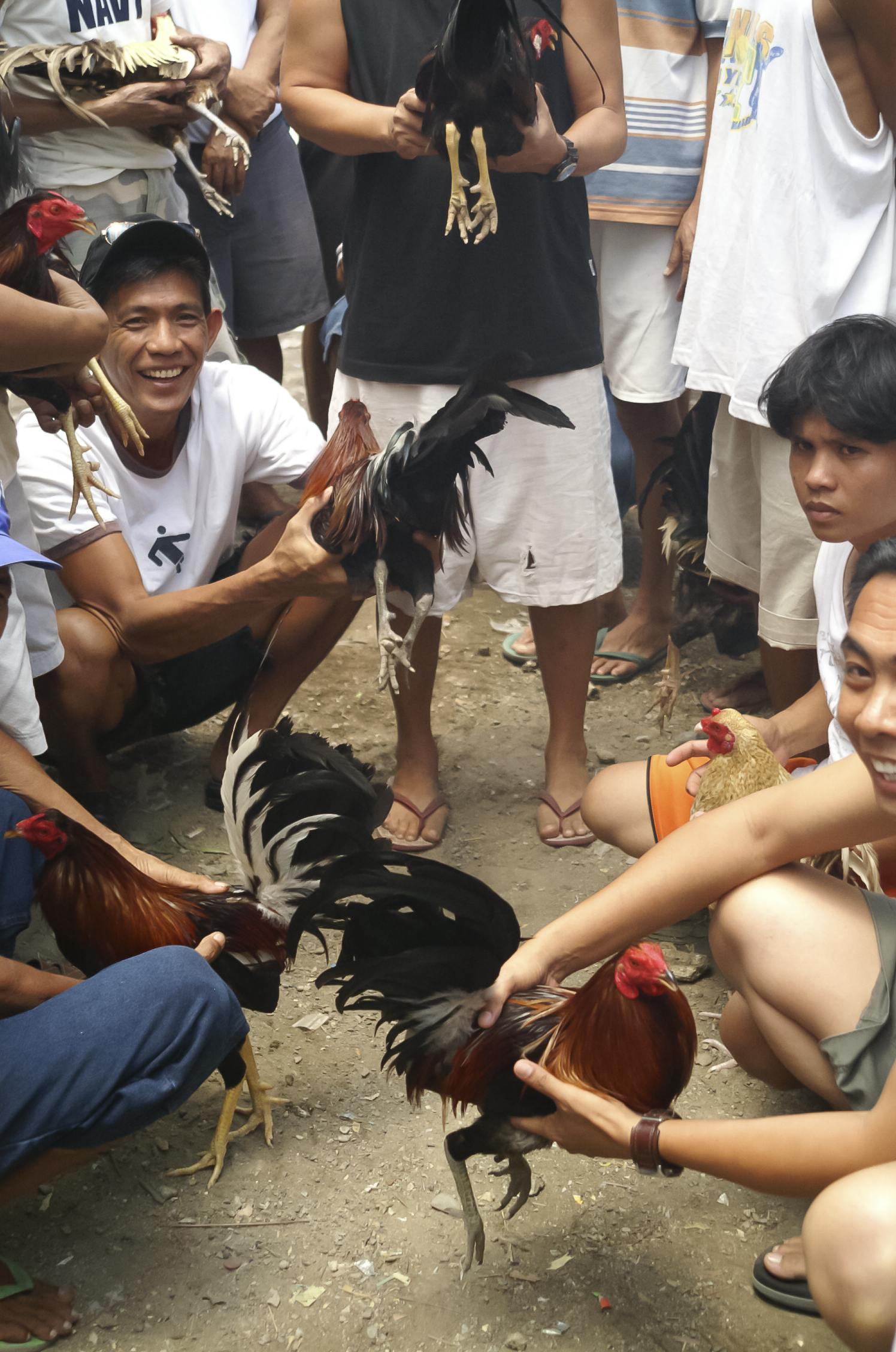 Bulacao, Cebu City, Philippines: The participants of a cockfight competition ("Sabong") discussing the skills of their roasters